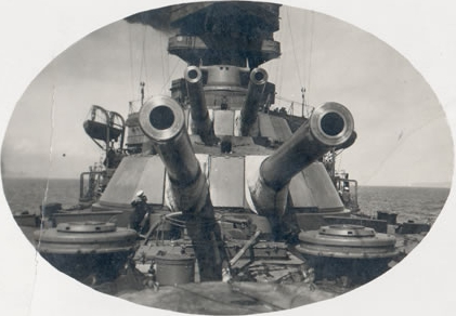 Muzzle view of forward 14-inch guns of Chilean battleship Almirante Latorre.